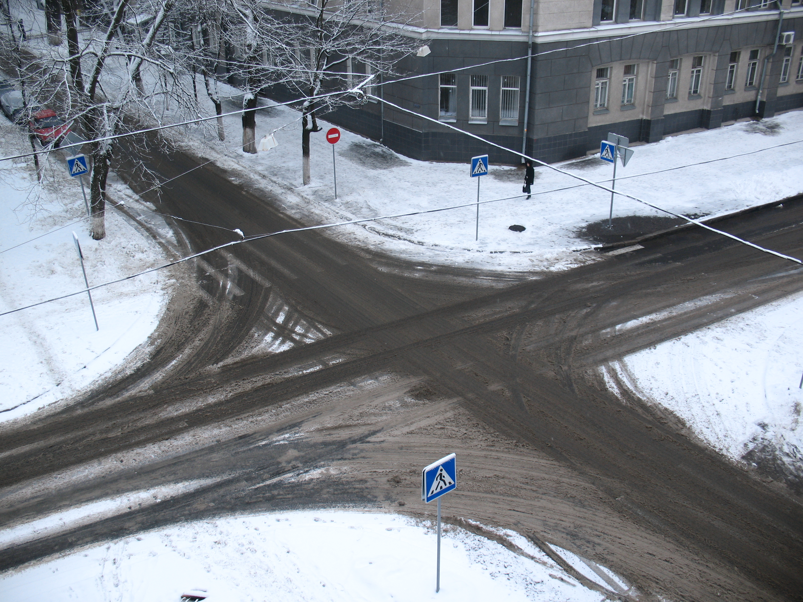 Crossroad in winter. Kharkov City.